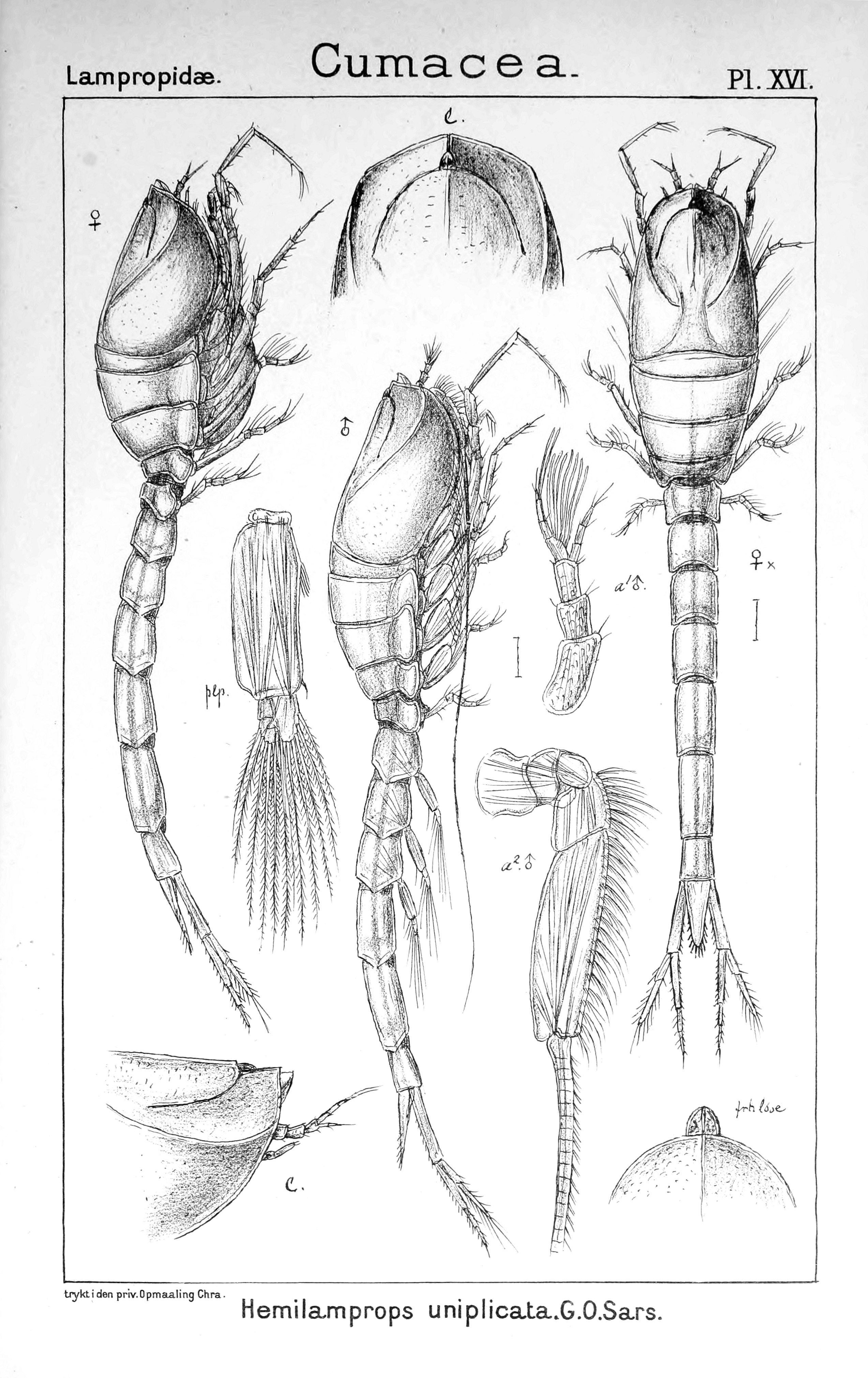 Plate XVI from Sars, G. O., (1900). An account of the Crustacea of Norway: Cumacea, Bergen Museum.